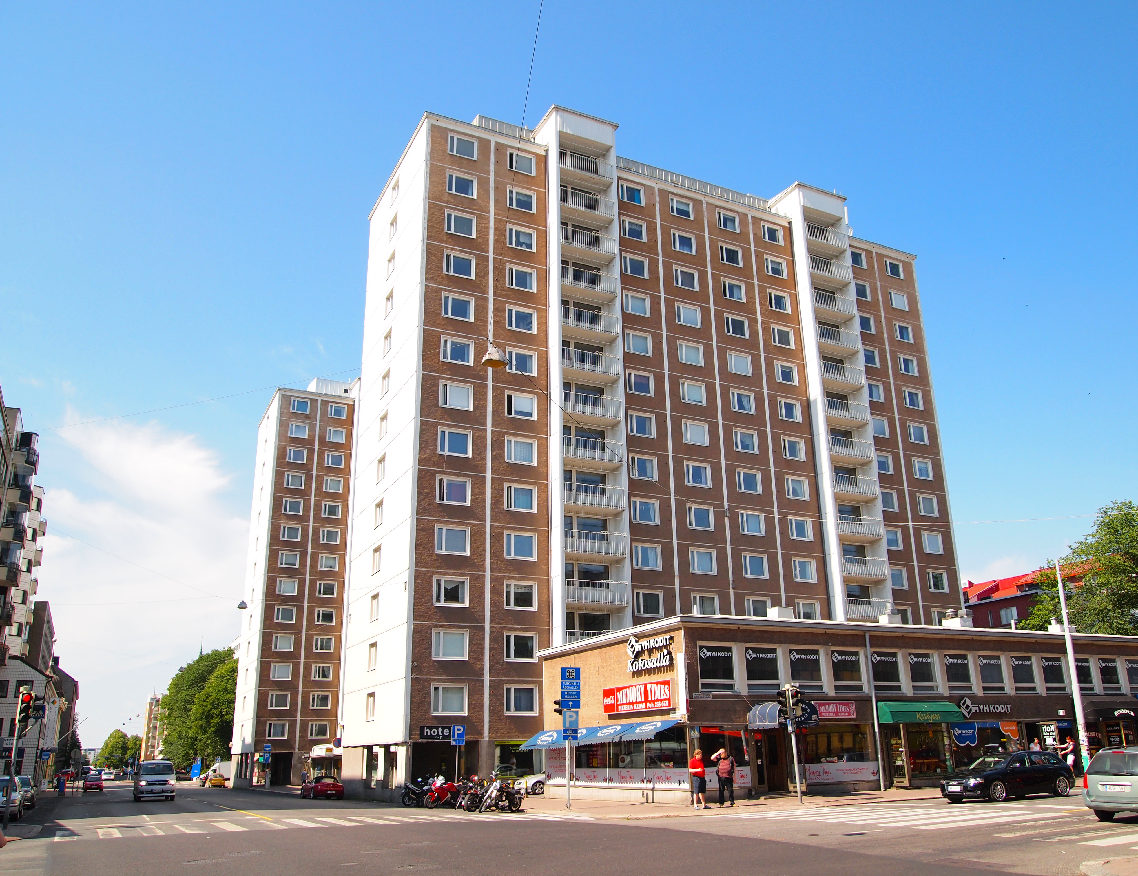 Buildings on the street Puutarhakatu in Turku. This photograph was taken with an Olympus E-PL1